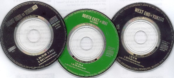 I took this myself, used it for a list of Japanese songs I made, and now offer it here for use on Wikipedia